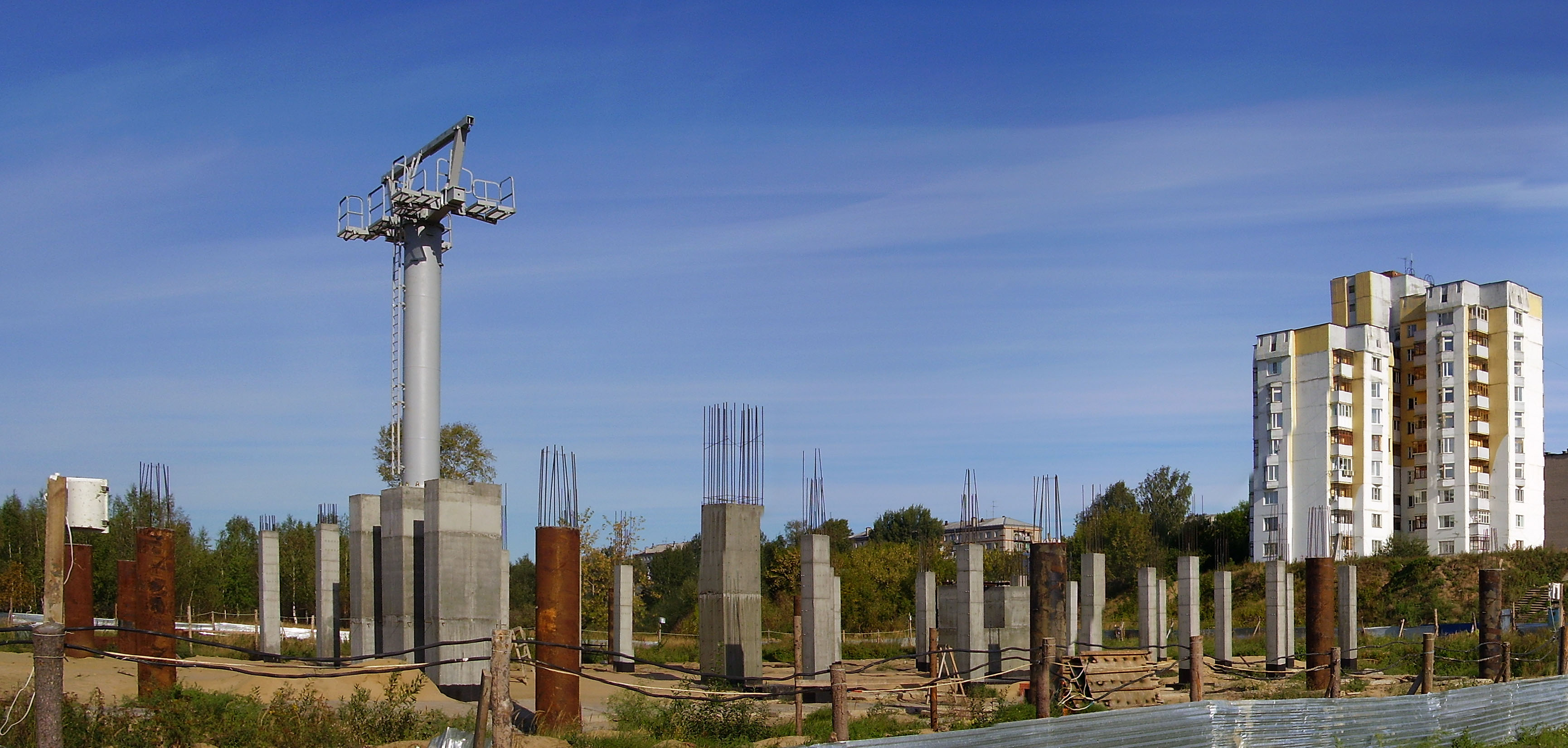 Construction station of Nizhny Novgorod aerial tramway on Bor side.